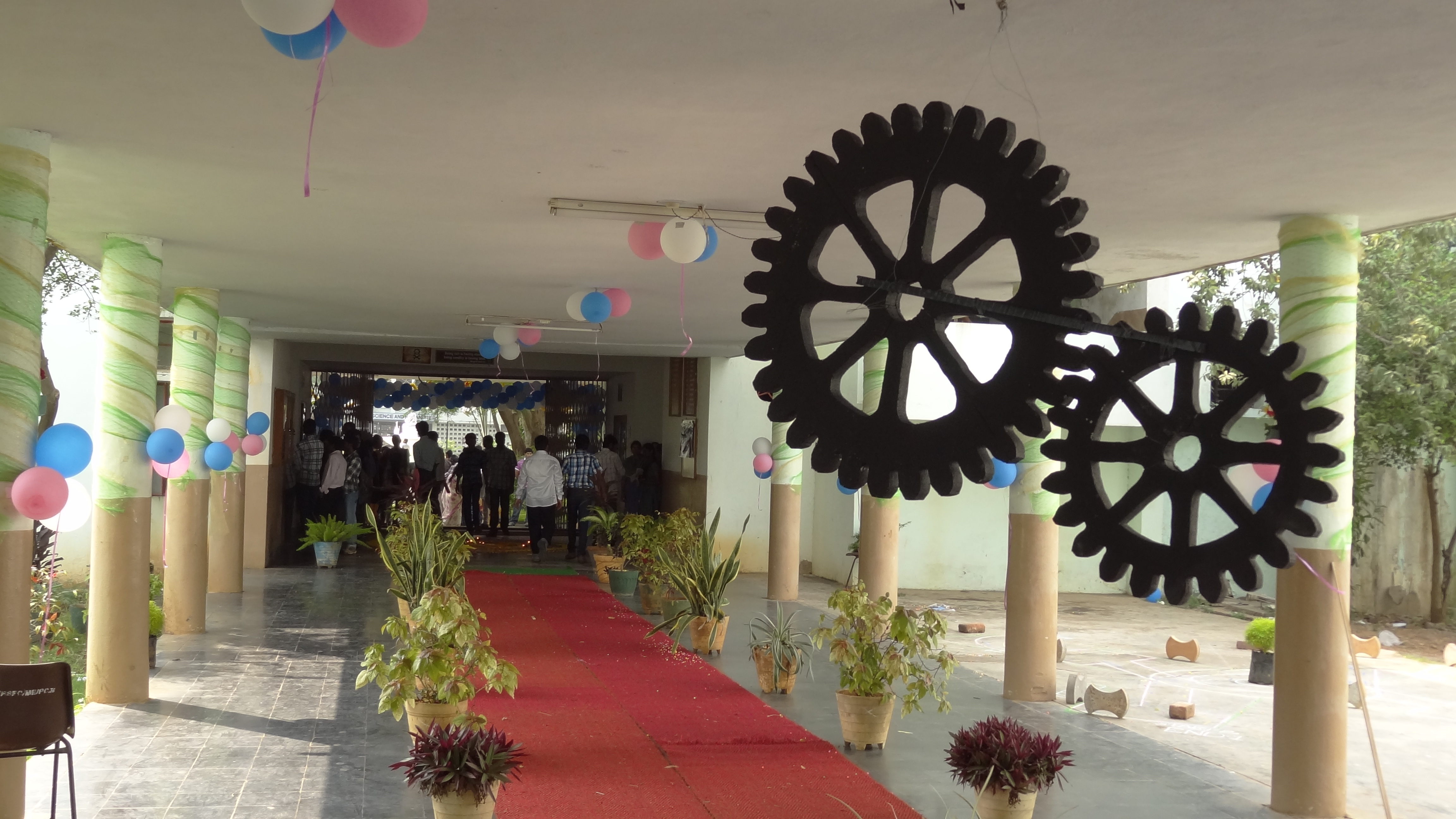 Mechanical Block Entrance